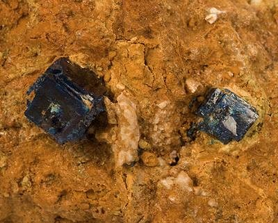 Pseudoboleite Locality: Amelia Mine, Santa Rosalía (El Boleo), Boleo District, Municipio de Mulegé, Baja California Sur, Mexico (Locality at ) Size: 5.3 x 4.6 x 3.3 cm. Pseudoboleite is much rarer than boleite from the Amelia Mine at Boleo, Mexico. This fine piece features two, lustrous, indigo-blue pseudoboleite cubes to 7 mm aesthetically set on stabilized clay matrix. Actually, the pseudoboleite is the 3-dimensional outgrowth upon boleite, a cube of which remains underneath the pseudoboleite accretion. Ex. Bill Larson Collection. Bill and Ed Swoboda spearheaded a mid 1970s mining project at the Amelia Mine.